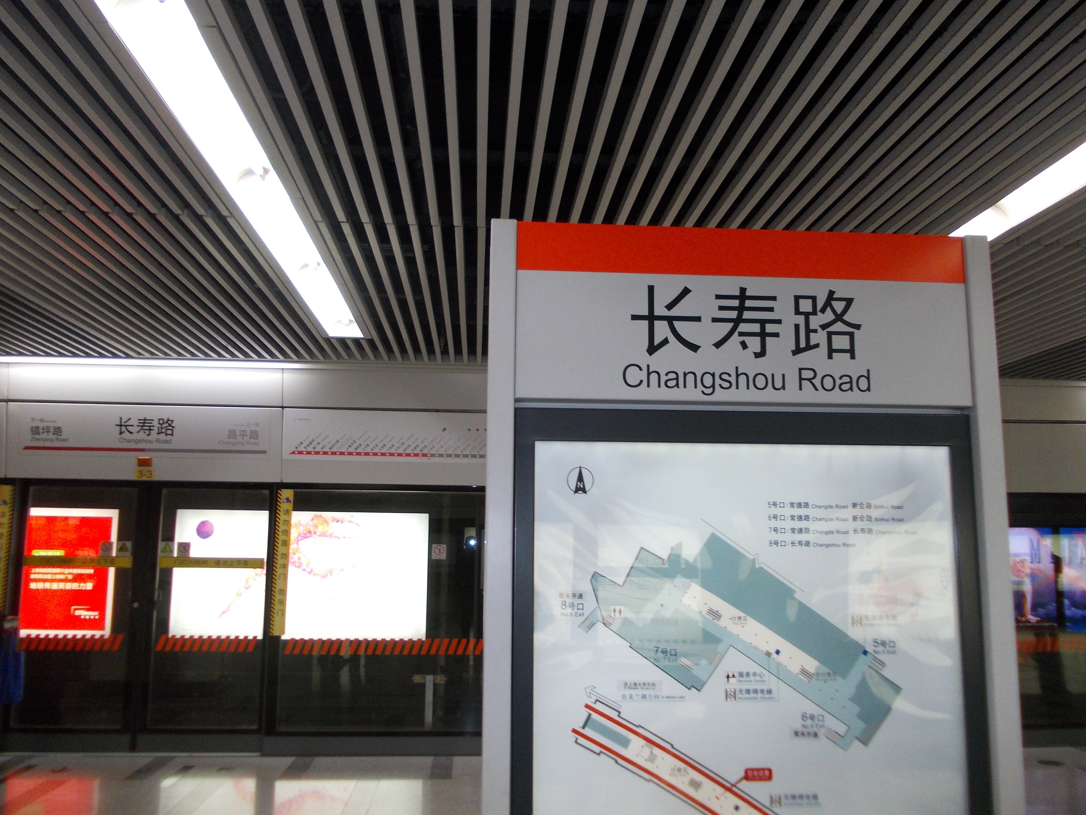 Shanghai Metro - Line 7 - Changshou Road - Sign